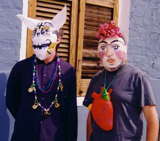 New Orleans Mardi Gras: Society of St. Anne paraders Photo by Infrogmation